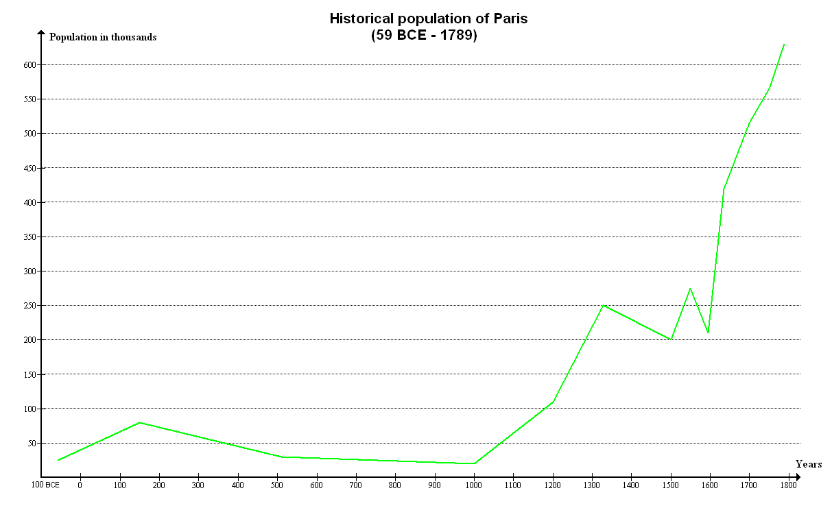 Graph created from the historical population table at Demographics of Paris.